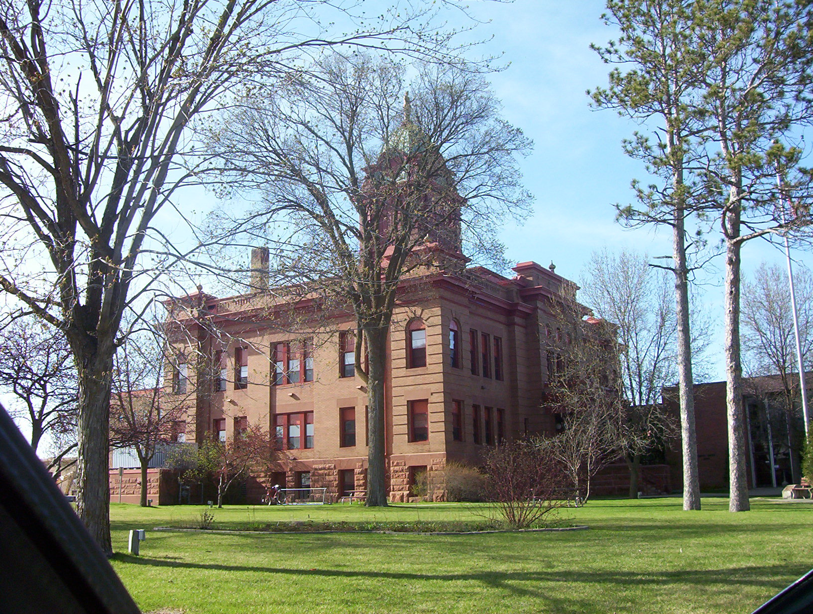 Bemidji Courthouse Category:Images of Minnesota - should be in Commons Category:Registered Historic Places in Minnesota